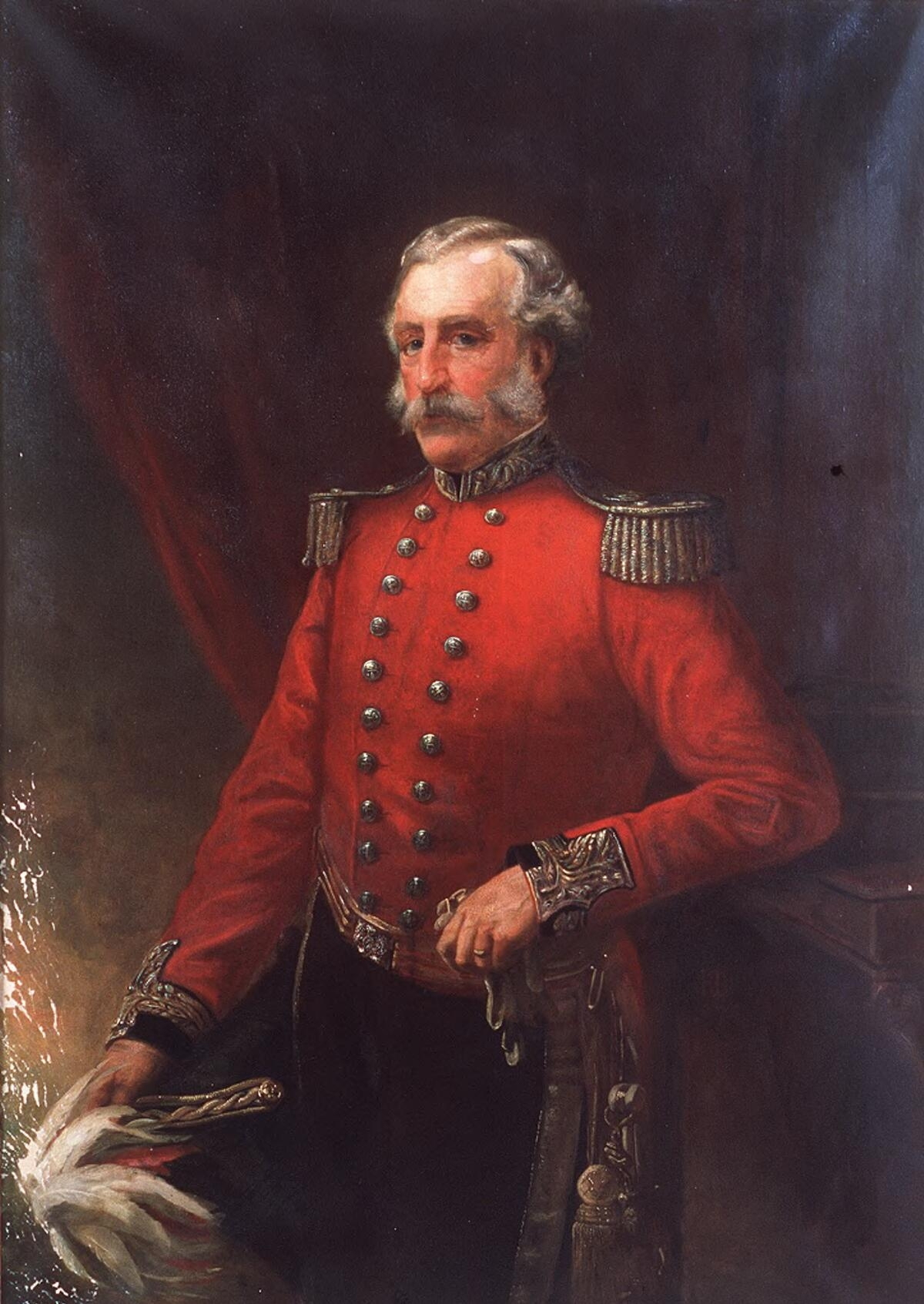 A painting from the Framed Works of Art collection at the National Library of wales.